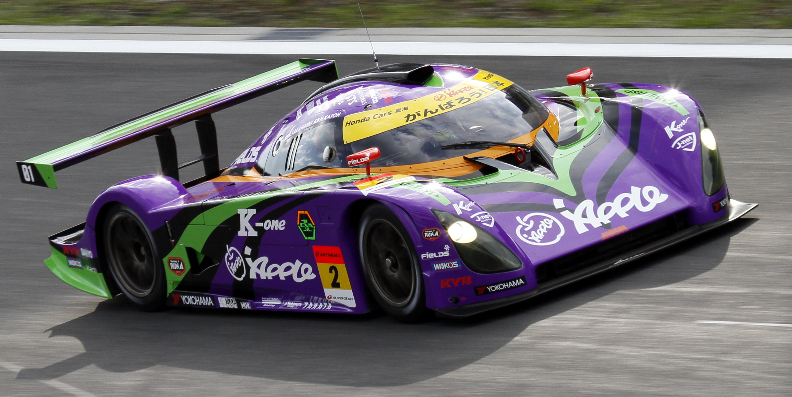 Super GT 2011 Rd.2 Fuji GT 400km: Kazuho Takahashi (Cars Tokai Dream28) driving the Shiden MC/RT-16 (Evangelion RT Test Type-01 Apple Shiden) during Friday test session.